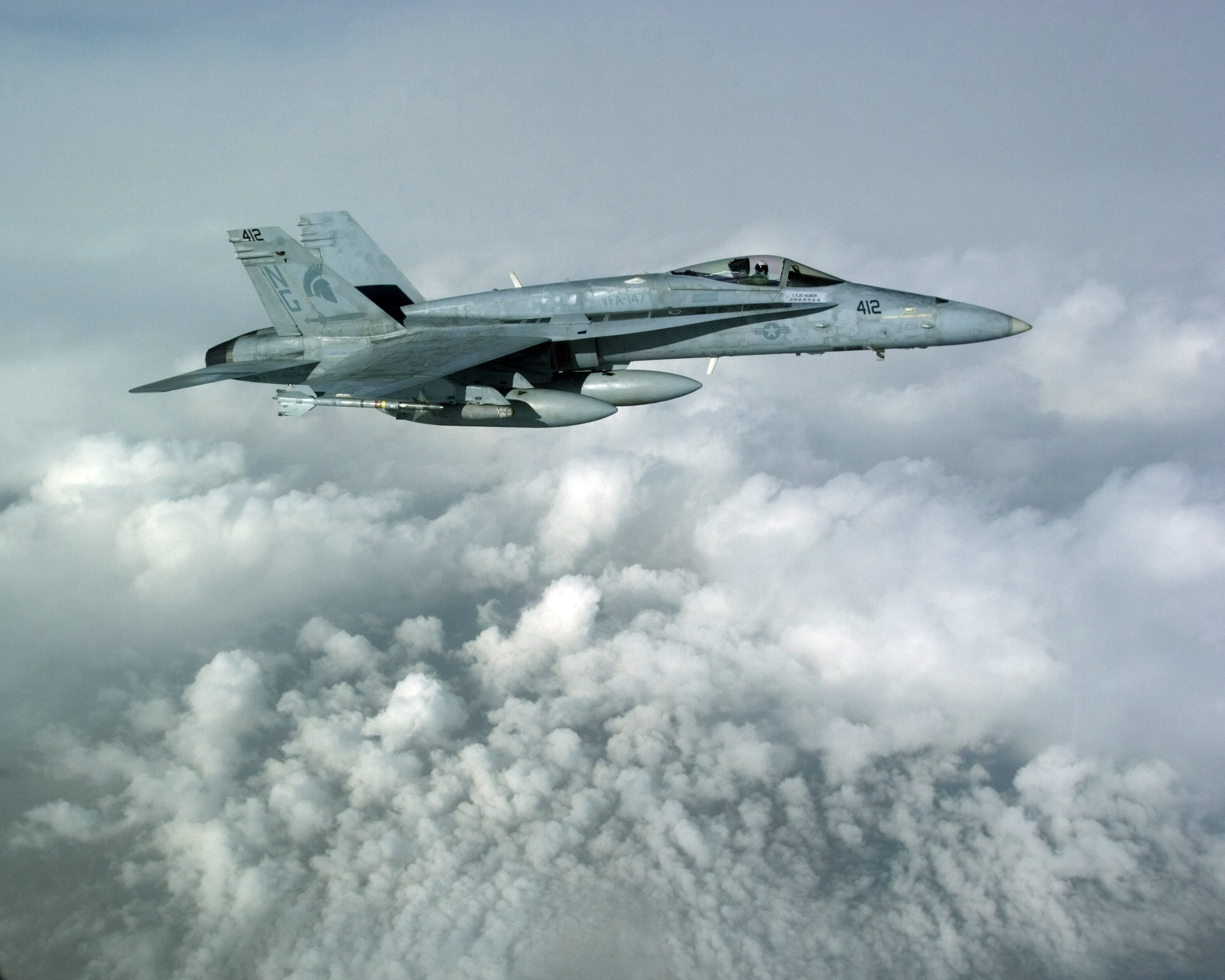 Iraq (Apr. 20, 2005) - An F/A-18C Hornet, assigned to the "Argonauts" of Strike Fighter Squadron One Four Seven (VFA-147), flies over Iraq during a combat mission prior to returning to the Nimitz-class aircraft carrier USS Carl Vinson (CVN 70). The Carl Vinson Carrier Strike Group is conducting operations in support of multi-national forces in Iraq and maritime security operations in the Persian Gulf. Carl Vinson will end its deployment with a homeport shift to Norfolk, Va., and will conduct a three-year refuel and complex overhaul. U.S. Navy photo by Cmdr. Don Berry (RELEASED)